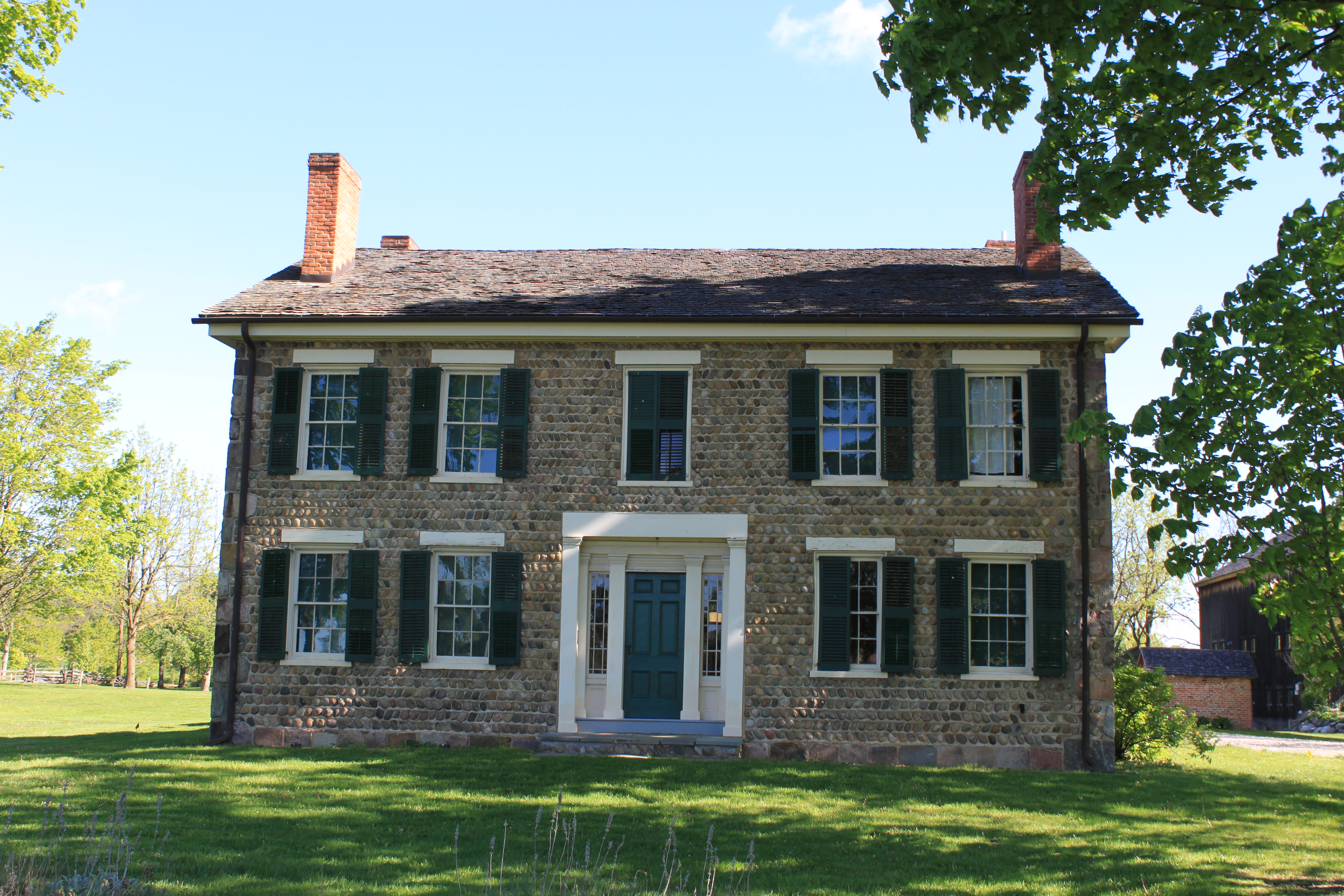 Cobblestone Farm Ticknor-Campbell House rear view, Ann Arbor, Michigan